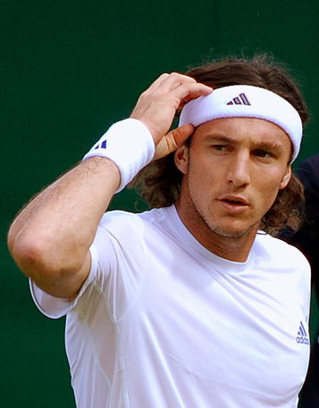 Tennis player Juan Monaco at Wimbledon 2011